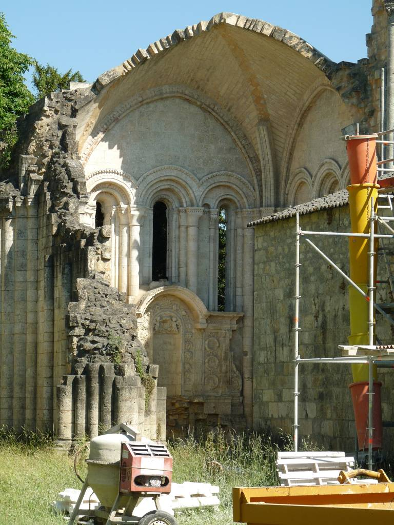 ruins of the abbey of La Couronne, Charente, southwestern France